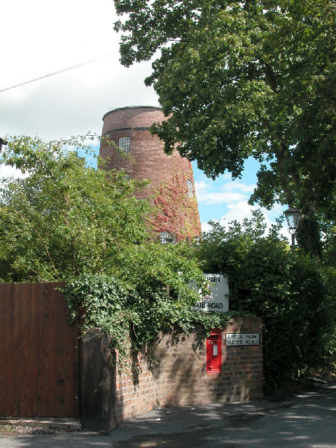 Old Mill House Upton by Chester. Converted to residential property after being derelict for many years.